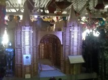 This popsicle stick castle was produced by one man, Stephen Guman, of Naugatuck, Connecticut with 296,000 popsicle sticksand four gallons of glue. In 2009, it was designated the largest popsicle stick structure in the world - a title it lost two years later.